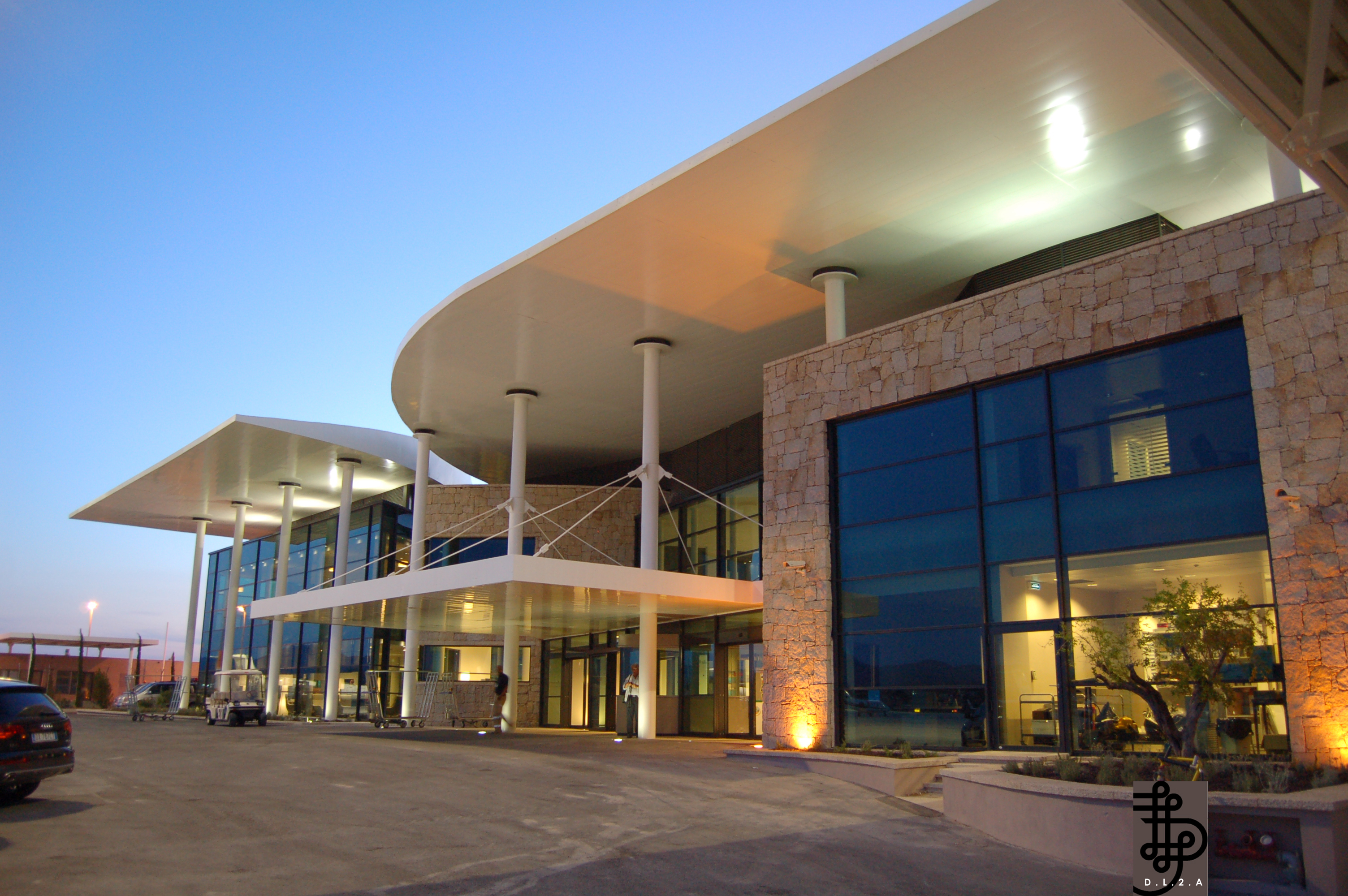 DL2A Terminal Olbia Airport Sardaigne